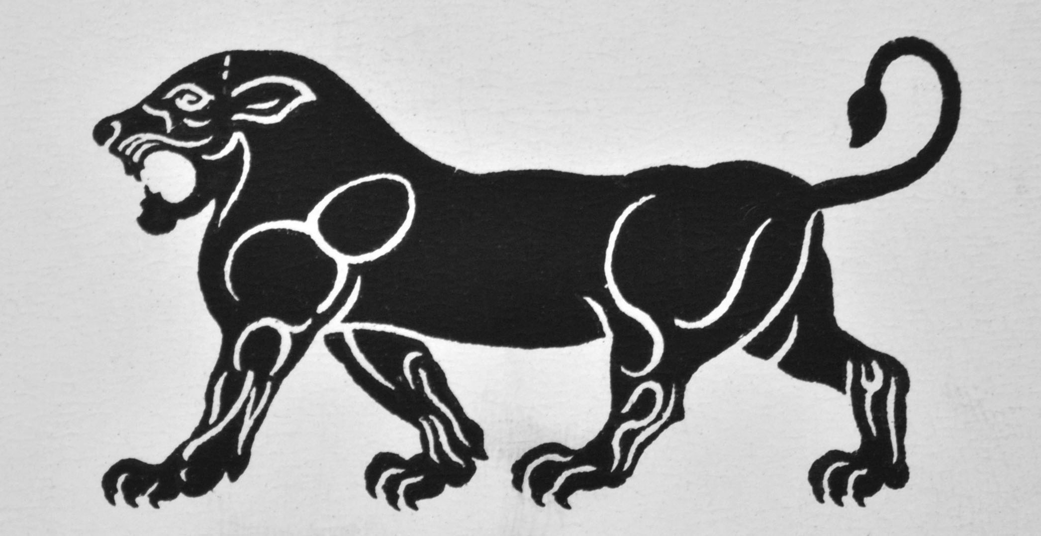 Formation sign of the First Indian Corps in the First World War